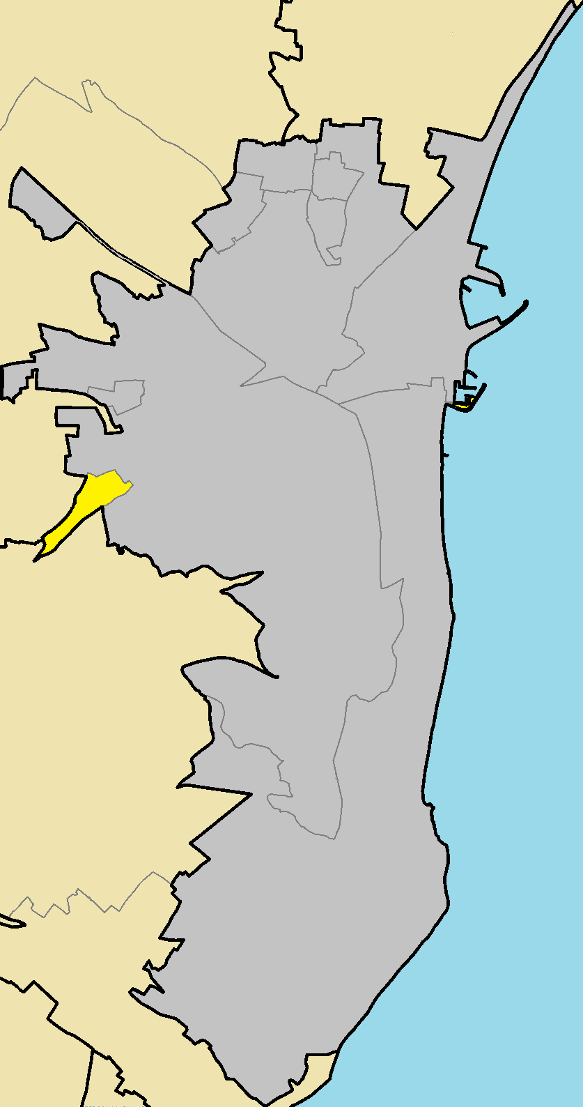 Archiepiskopos Makarios III in Larnaca Municipality.